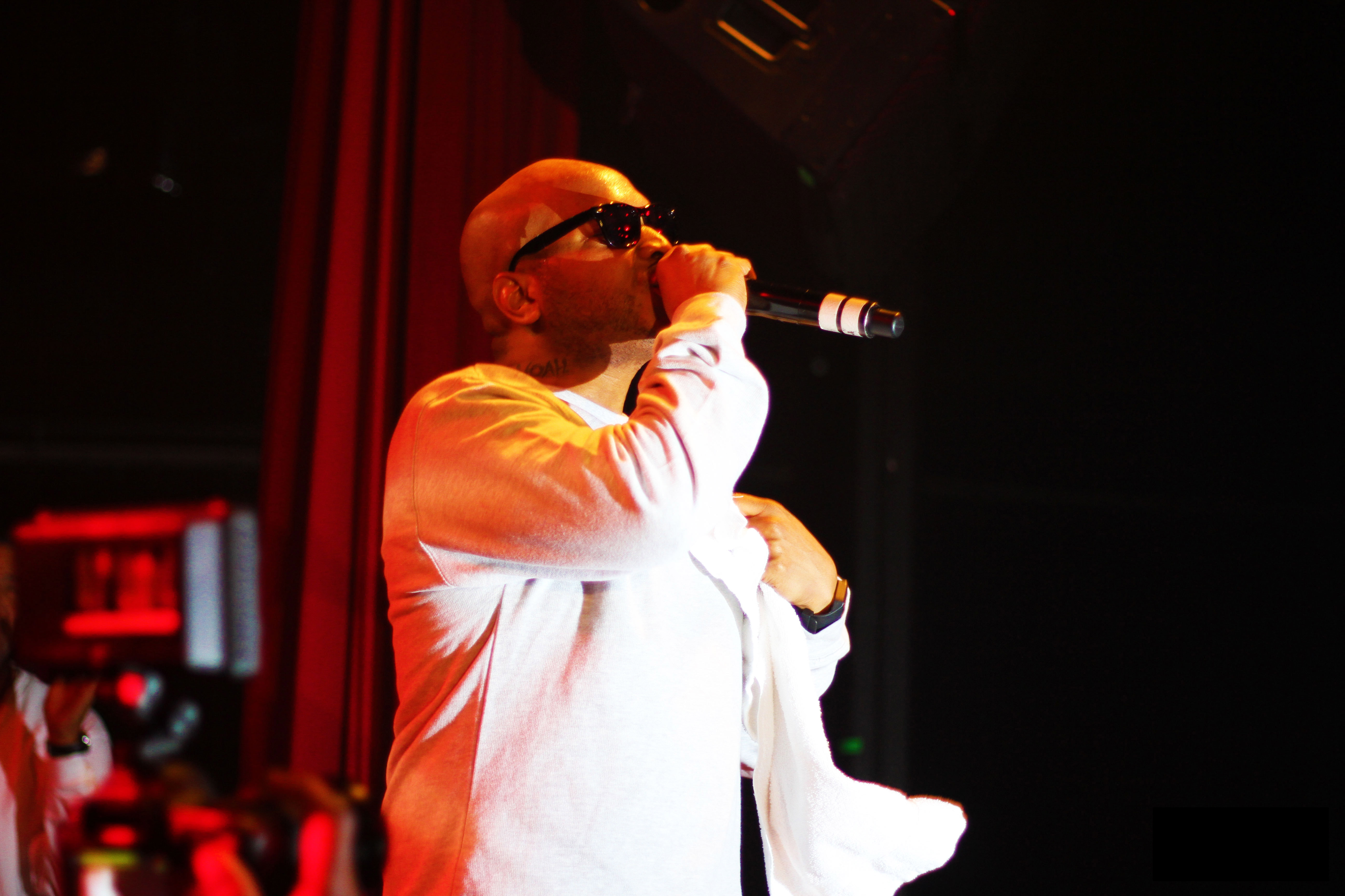 Styles P at the Sound Academy in Toronto